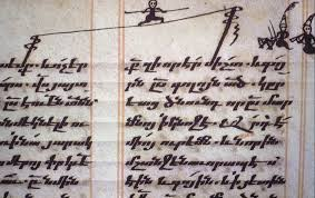 Works of Gregory Naziansus, Cyril of Alexandria, 1688, Ispahan, Venice Mekhitarist V1028, f. 95